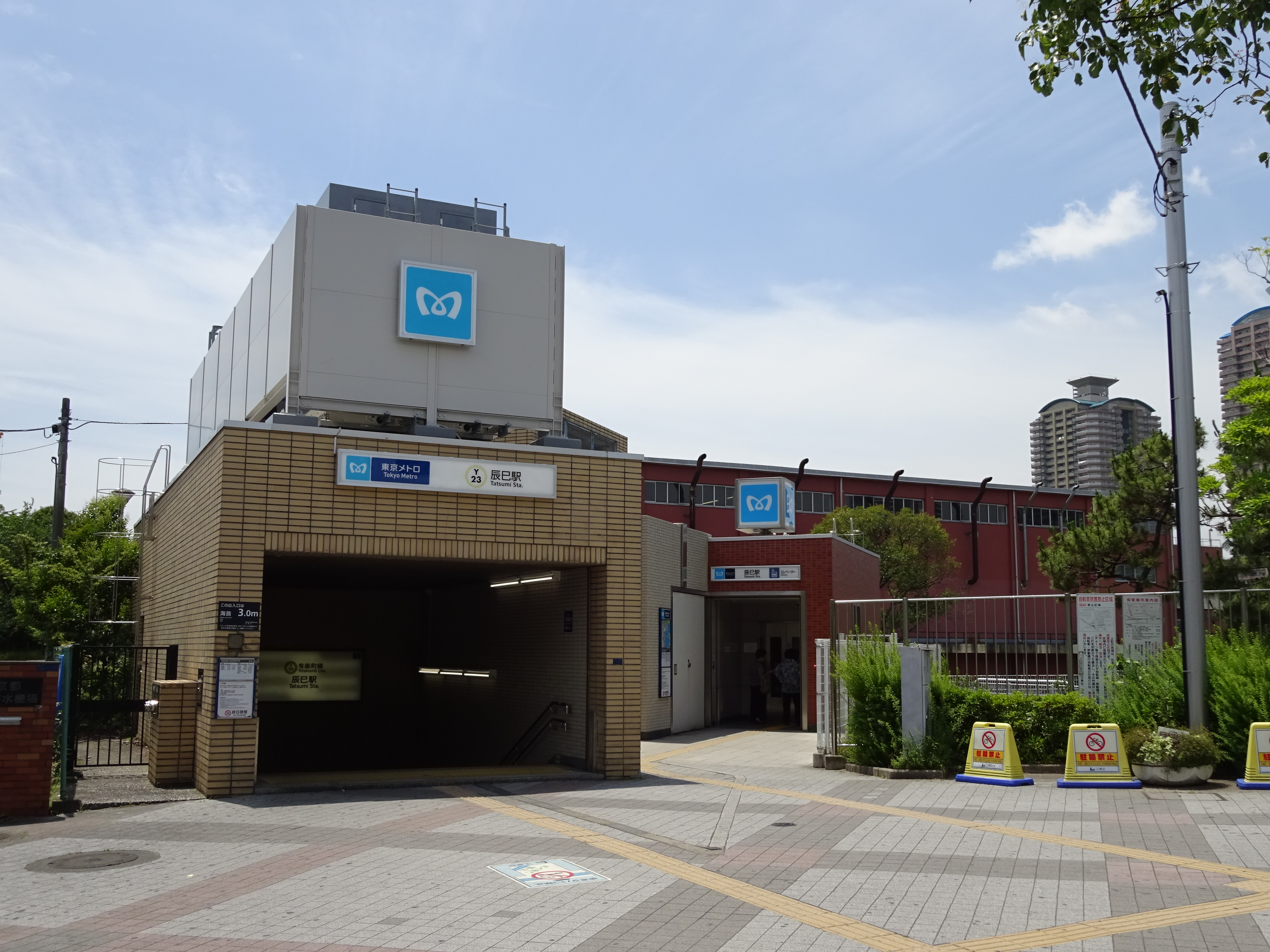 Tatsumi Station, Exit No.1